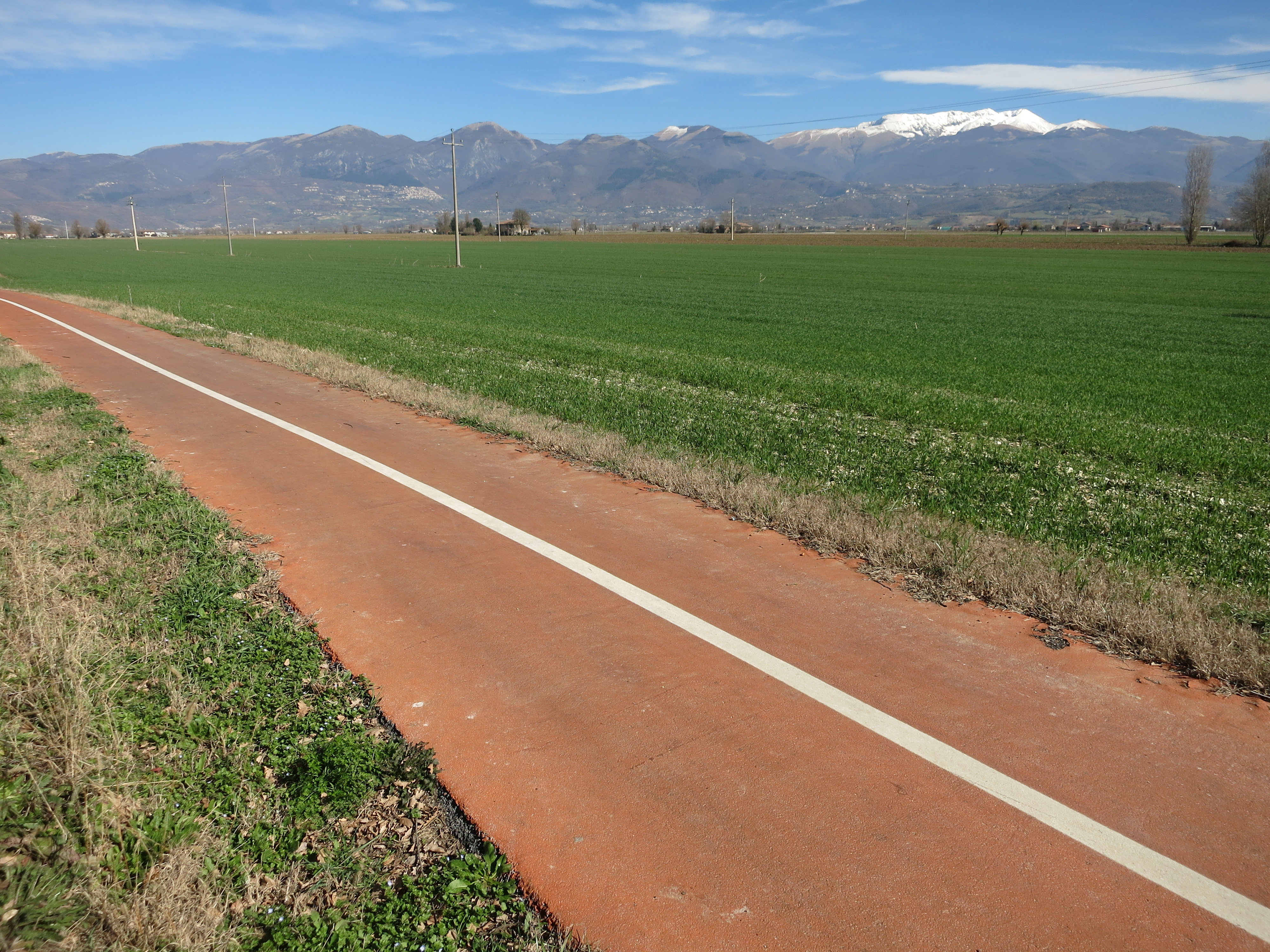 Ciclovia della Conca Reatina, bikeway in the province of Rieti (Lazio, Italy)